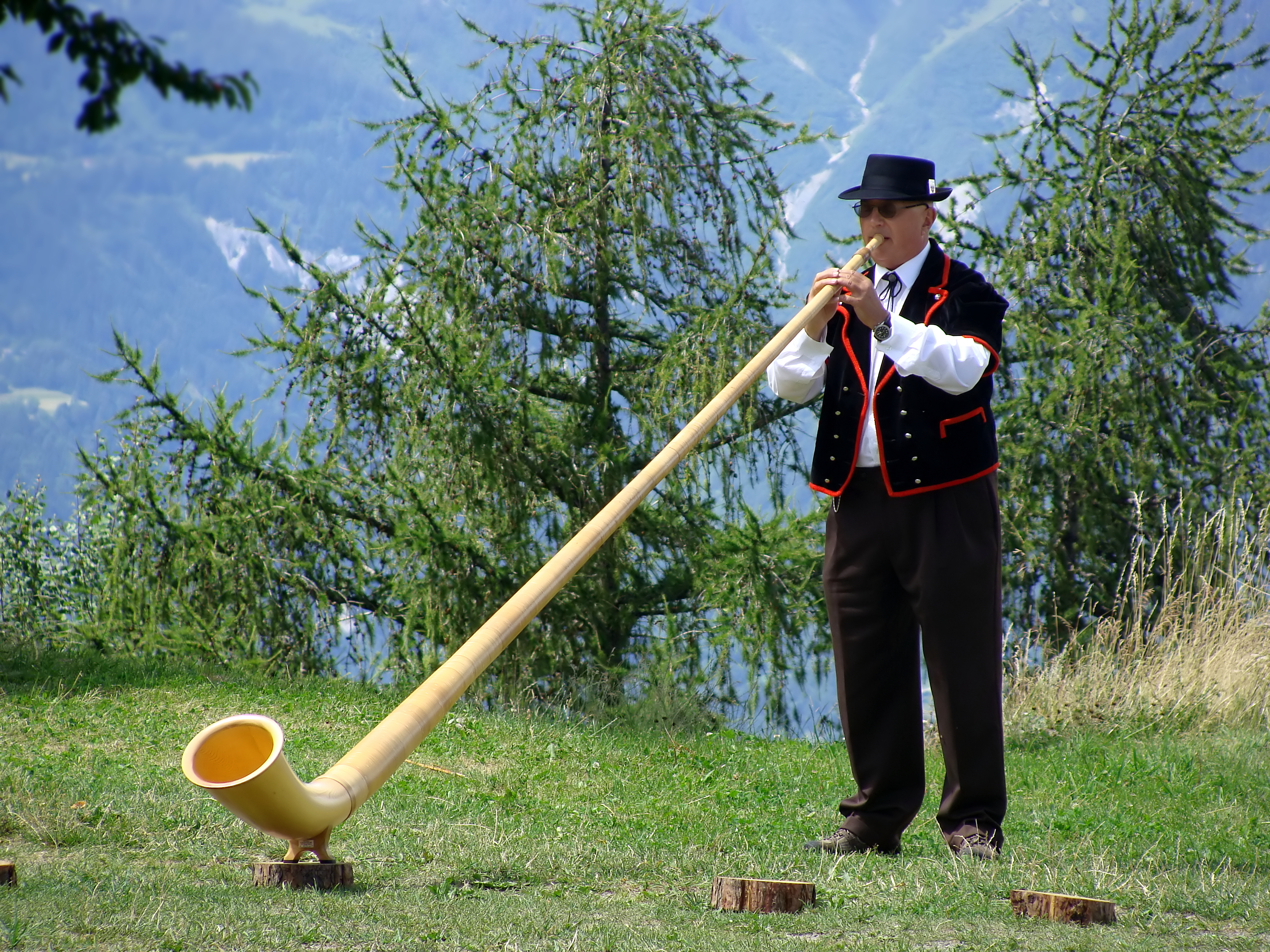 Alphorn player in Nendaz, Wallis, Switzerland.